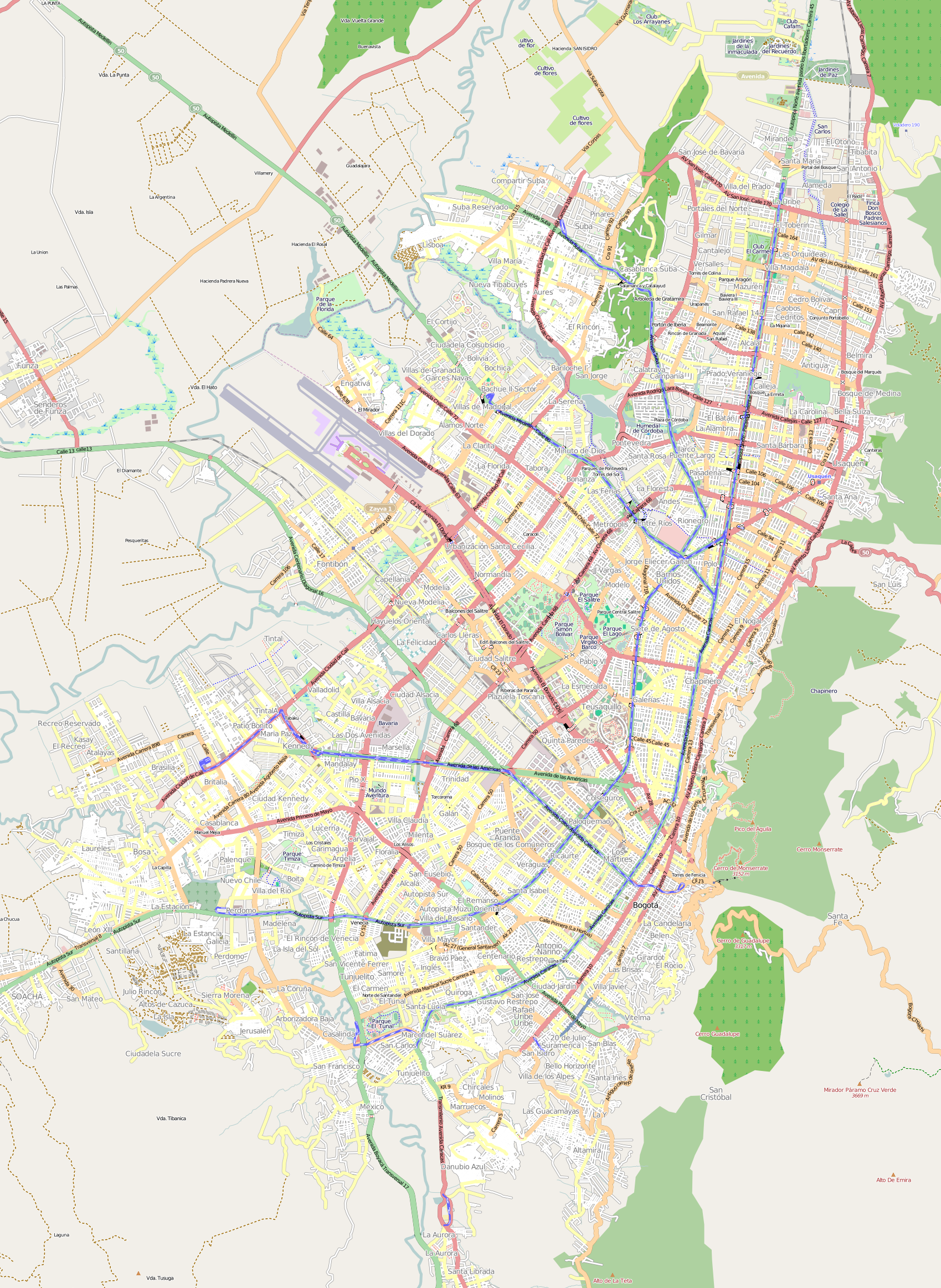 Bogotá Location Map Equirectangular projection. Geographic limits of the map: N: 4.7967 N S: 4.5138 S W: -74.2183 W E: -74.0110 W